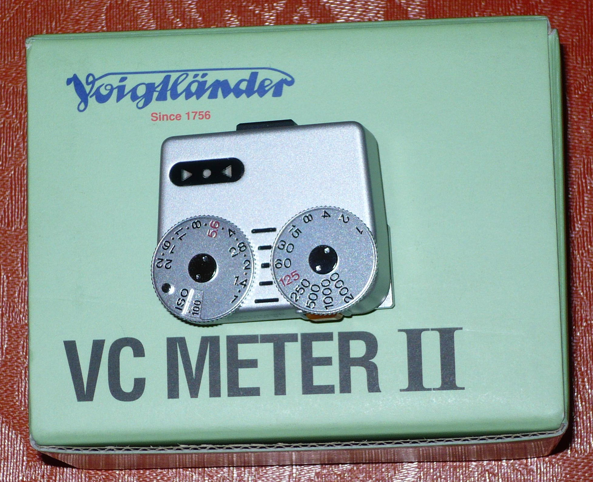 VOIGTLANDER VC METER II